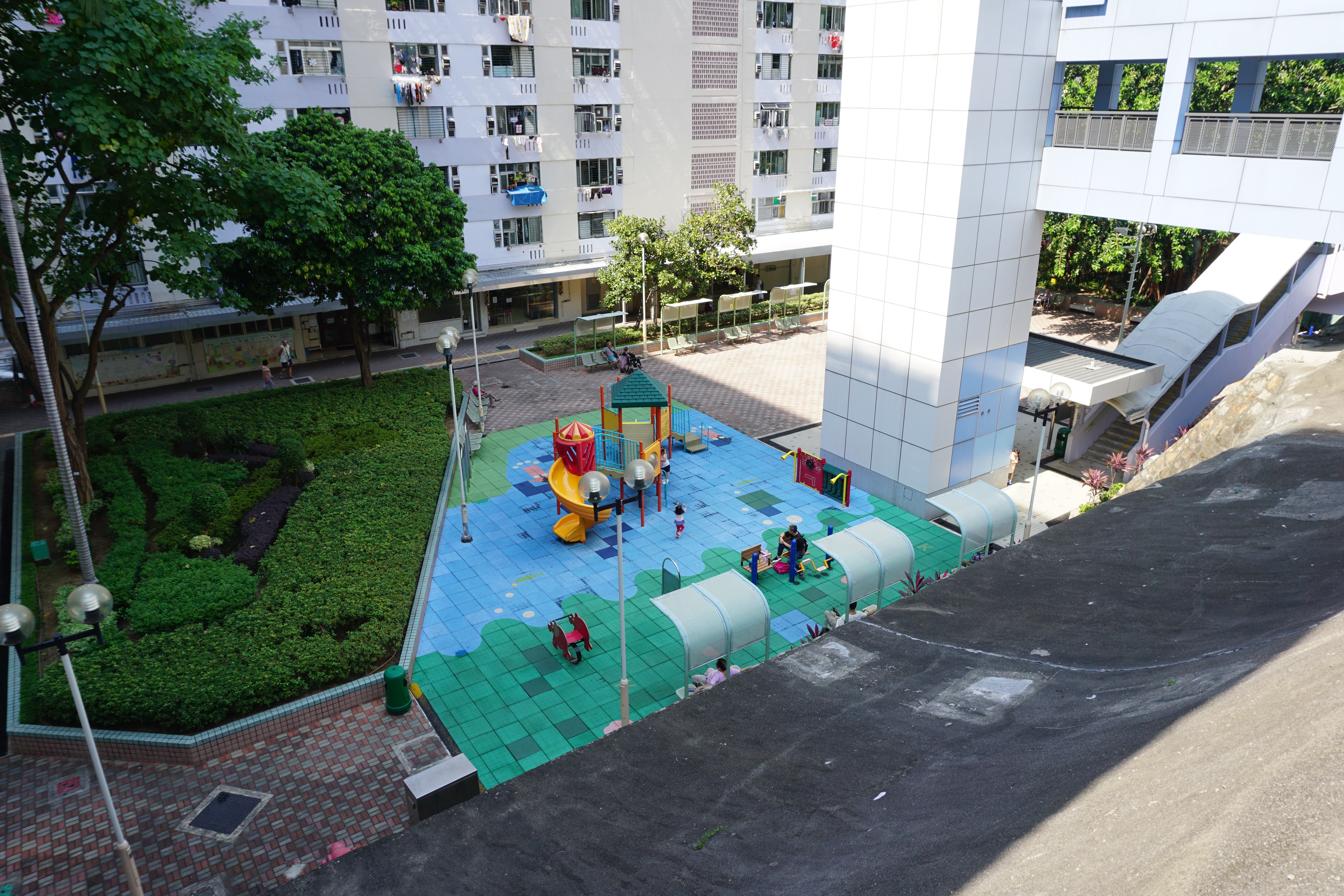 Lai King Estate in Lai King, Hong Kong.